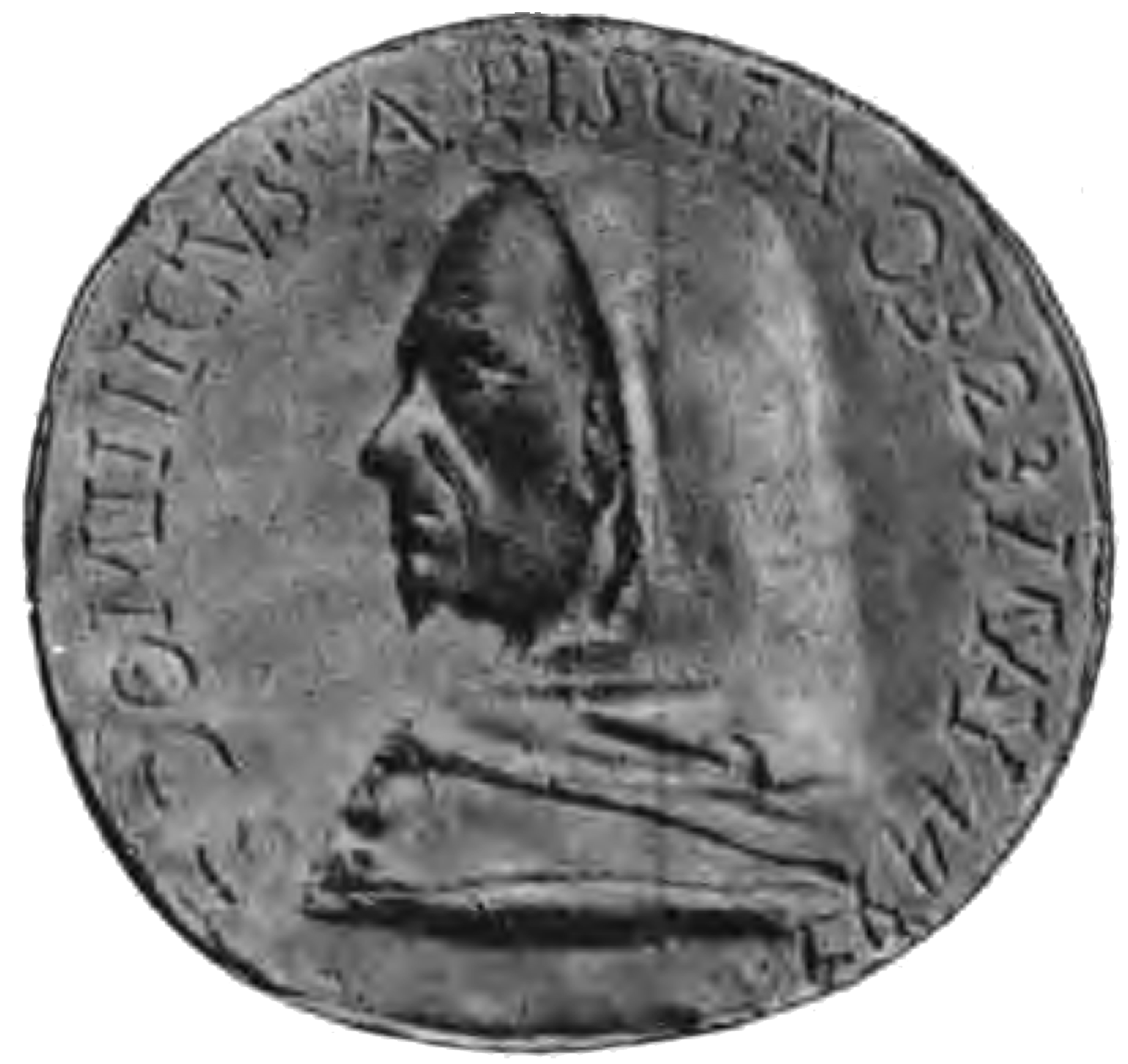 Image from Rivista italiana di numismatica 1892 pag. 493 (../517) medal depicting Domenico Buonvicini, a Dominican friar burned together with Savonarola.